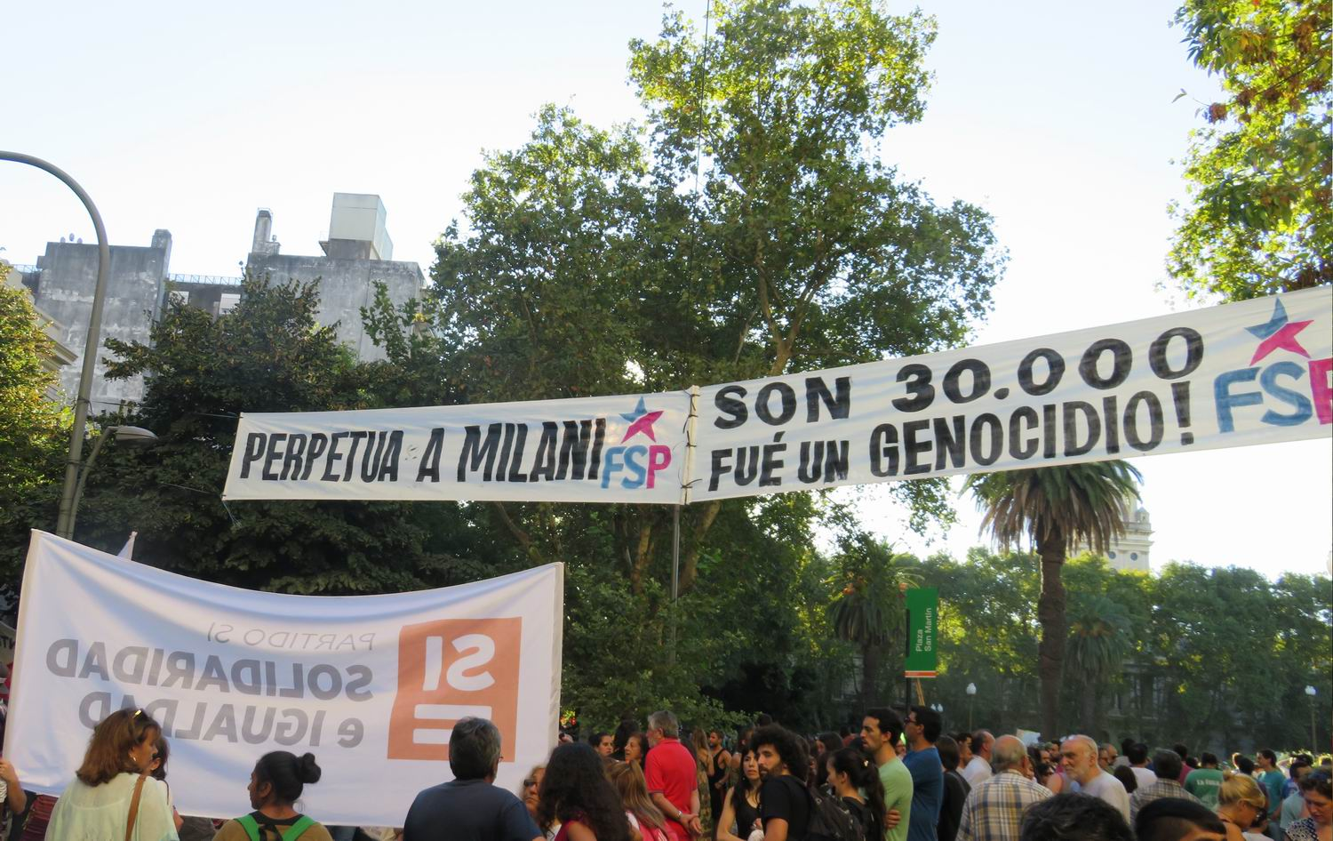 2017 Protest in Rosario, Argentina, requesting life imprisonment for General MIlani